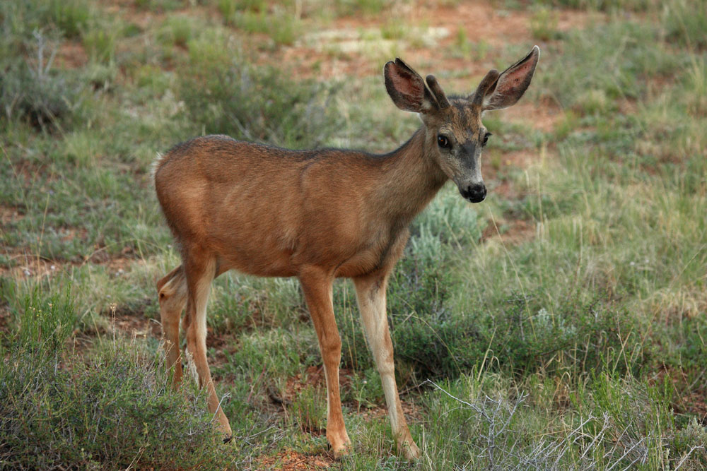 Mule deer, in Bryce Canyon NP, Utah, USA